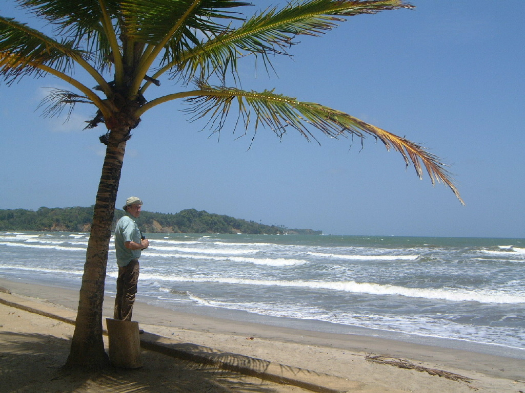 Manzanilla beach, Trinidad, March 2005 My image